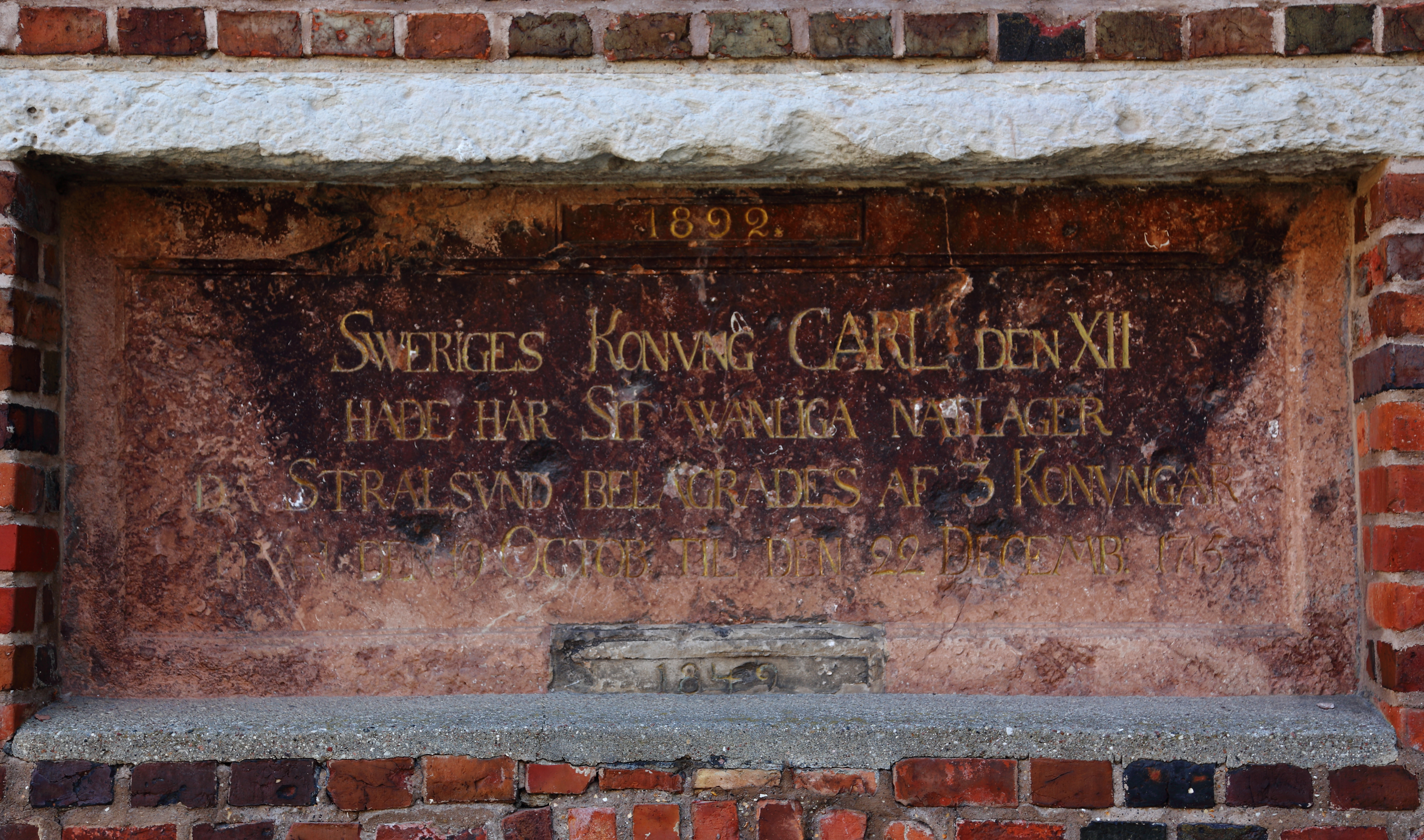 Memorial stone at the Frankenkronwerk in Stralsund, Landkreis Vorpommern-Rügen, Mecklenburg-Vorpommern, Germany.